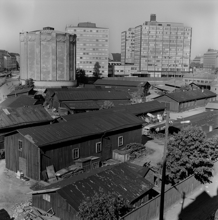 Gas holder in Kamppi, Helsinki